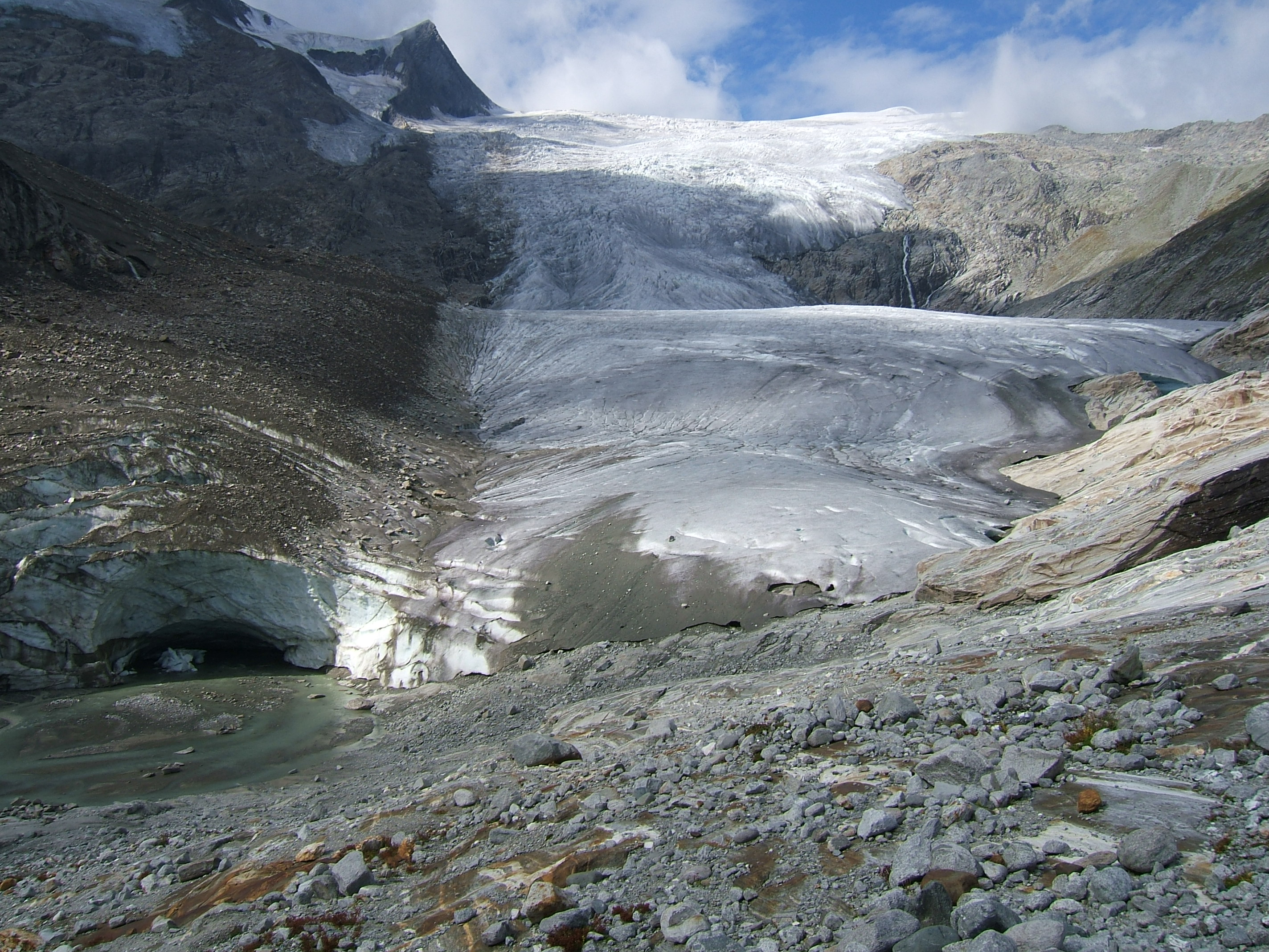 Lobe and mouth of Schlatenkees, Hohe Tauern, Alps